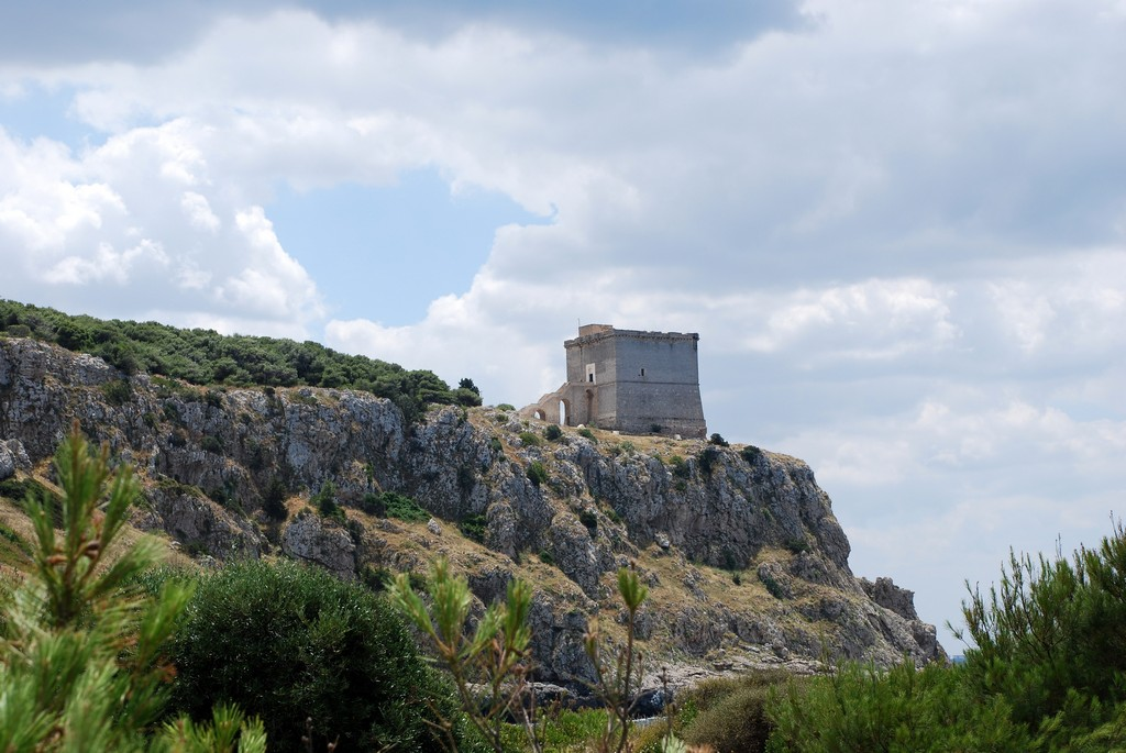 Torre dell'Alto and the clouds